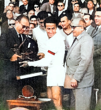 Final of Algerian Cup 1960: Mr Louis Sigala, minister of sports in Algiers, give the trophy of algerian cup to the captain of Sporting Club Bel Abbès (winner team).